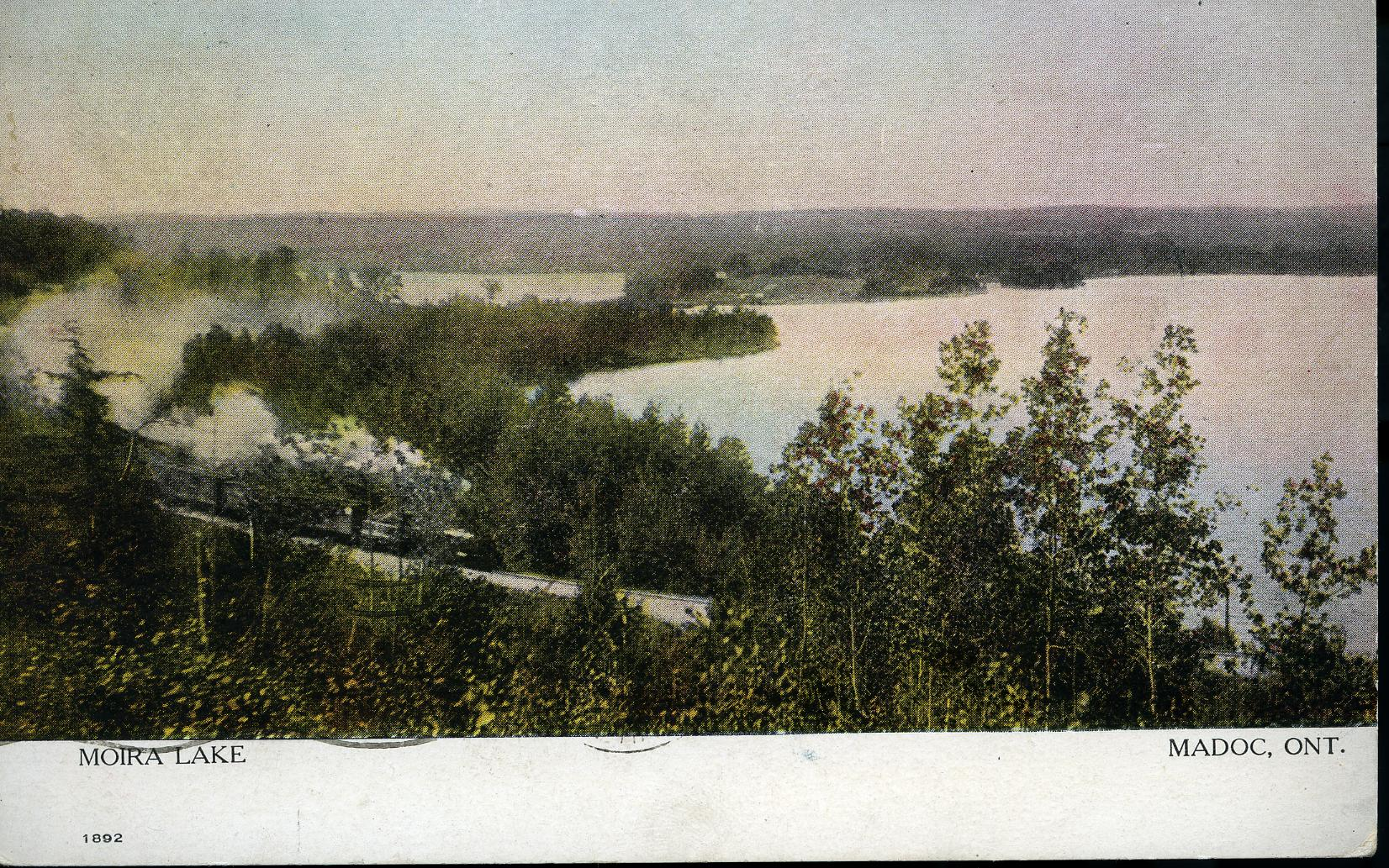 Postcard of Moira Lake, Madoc, Ontario showing a steam train.